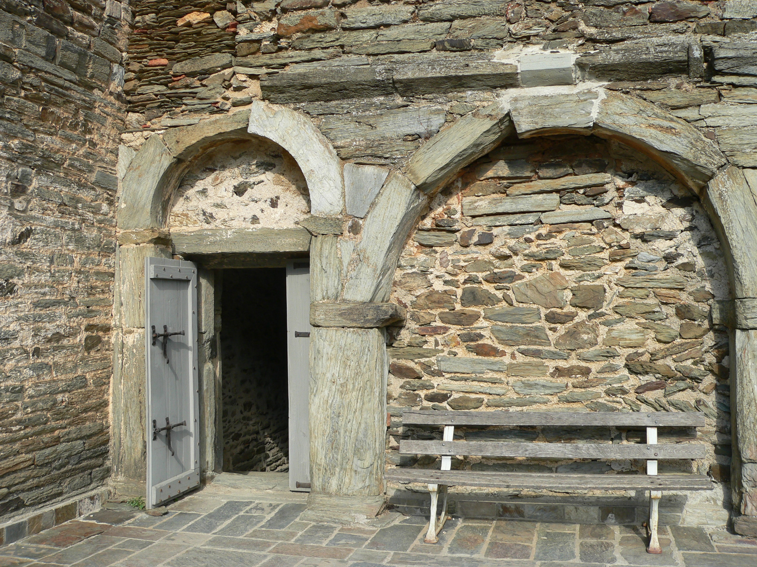 Priorate of Serrabonne, Terrace, french Pyrennees